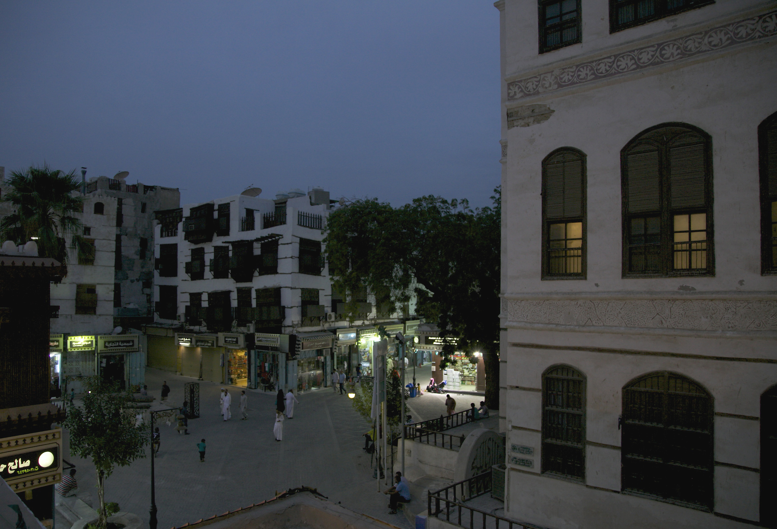 Old Jeddah.